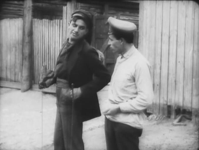 Mayakovsky in the film "Baryshnya i khuligan", 1918